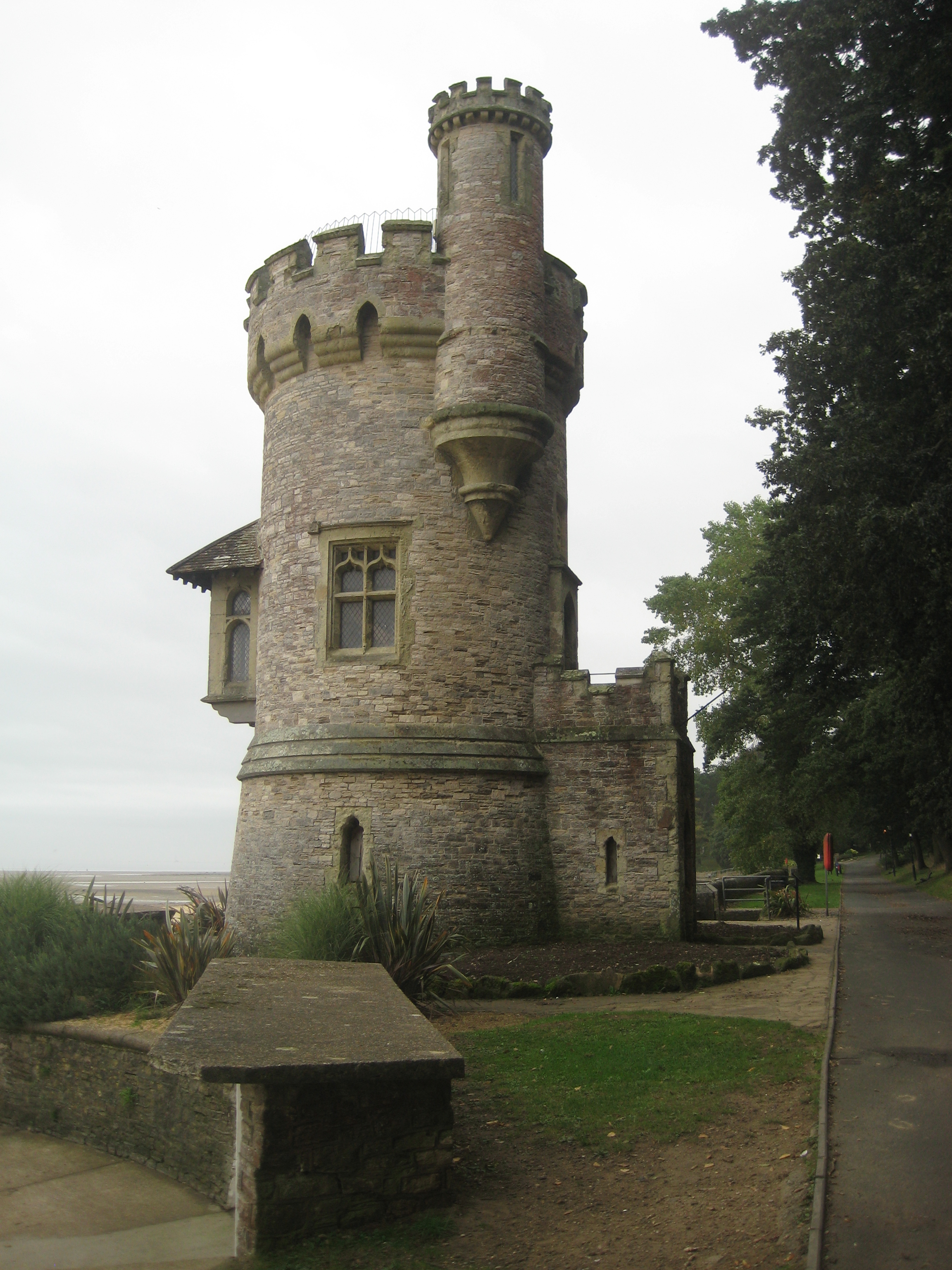 Appley Tower, Ryde, Isle of Wight. A folly built in 1875 for Sir William Hutt, who described it as "The Watch Tower". Designed by Thomas Hellyer and built by Isaac Barton.